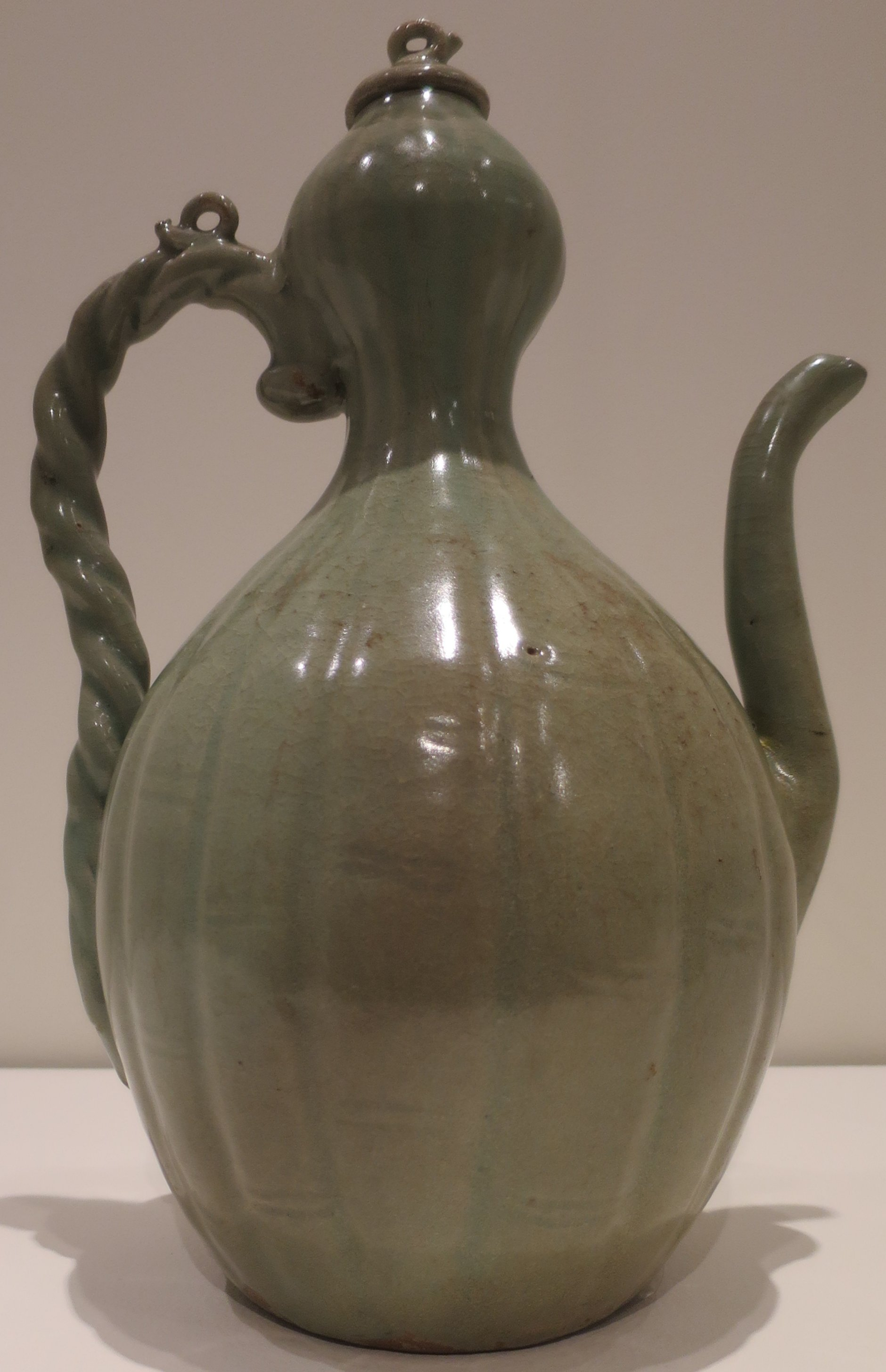 Double gourd ewer with twisted handle from Korea, Goryeo, late 12th-early 13th century, stoneware with celadon glaze and white slip decoration, Honolulu Museum of Art, accession 3179.1